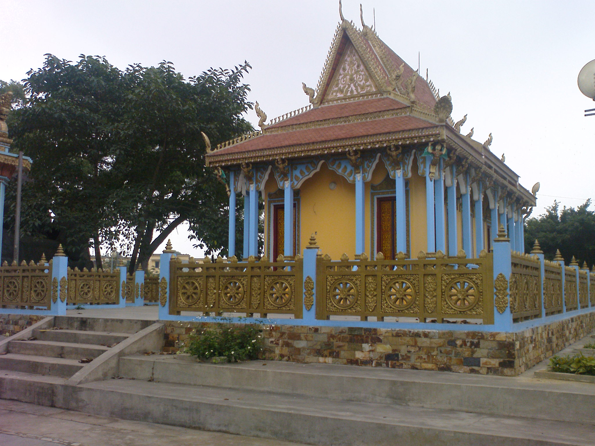 Museum of Ethnic Culture Vietnam, Thái Nguyên, Vietnam